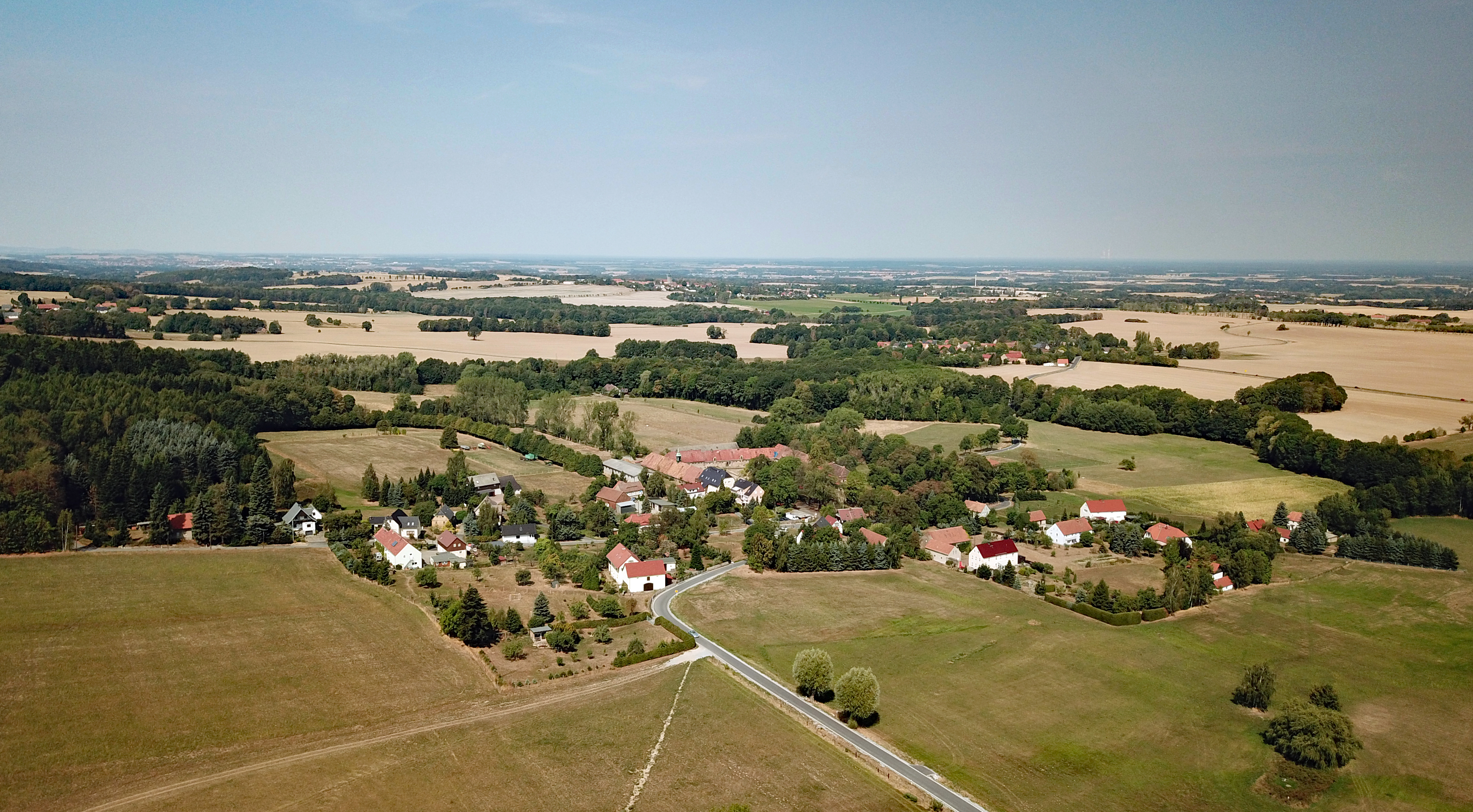 Lehn (Hochkirch, Saxony, Germany) Hornjoserbsce: Powětrowy wobraz Lejna pola Bukec.